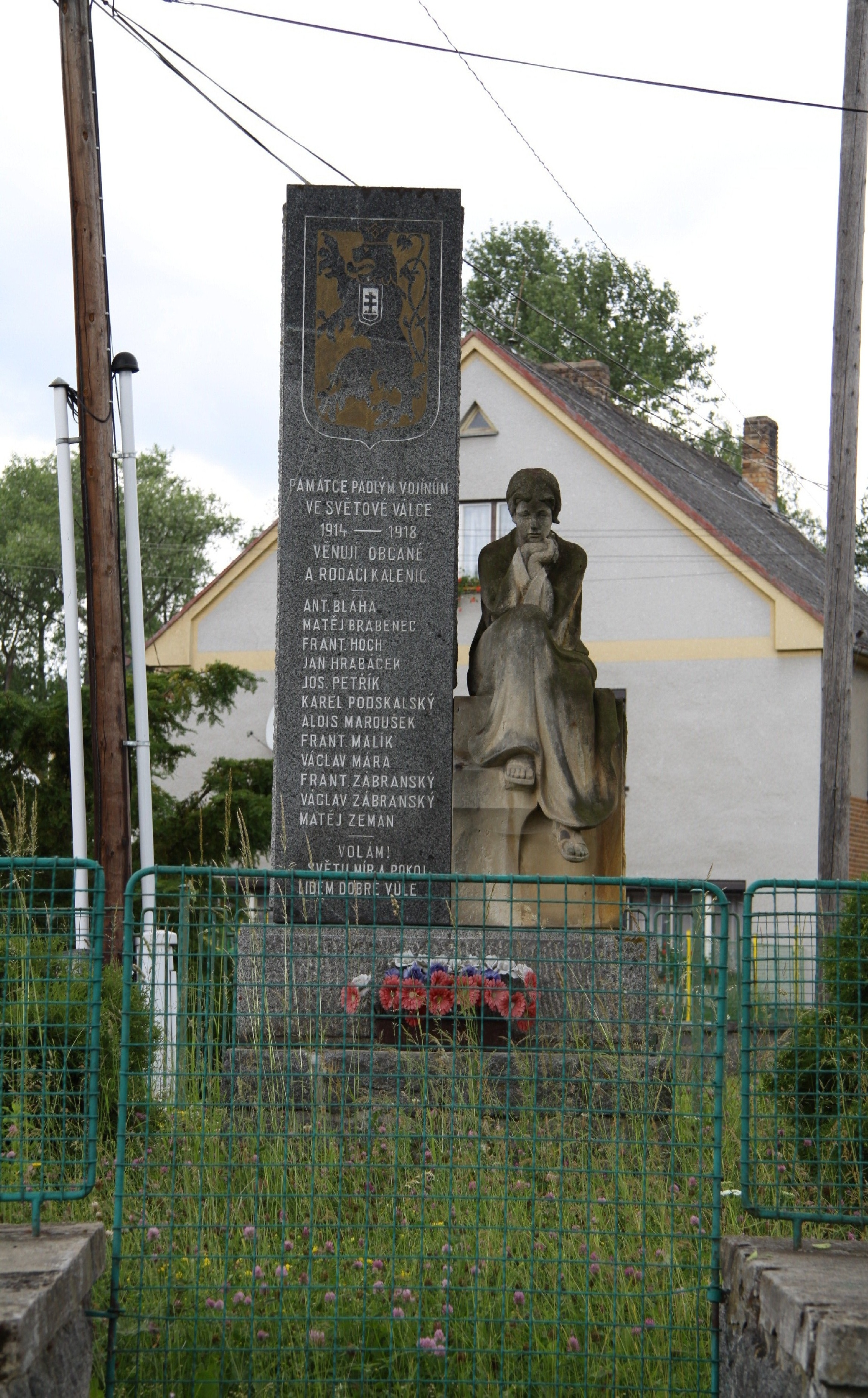 Kalenice village, Strakonice District, Czech Republic This photograph was taken within the scope of the 'Czech Municipalities Photographs' grant. - Google Maps - Google Earth